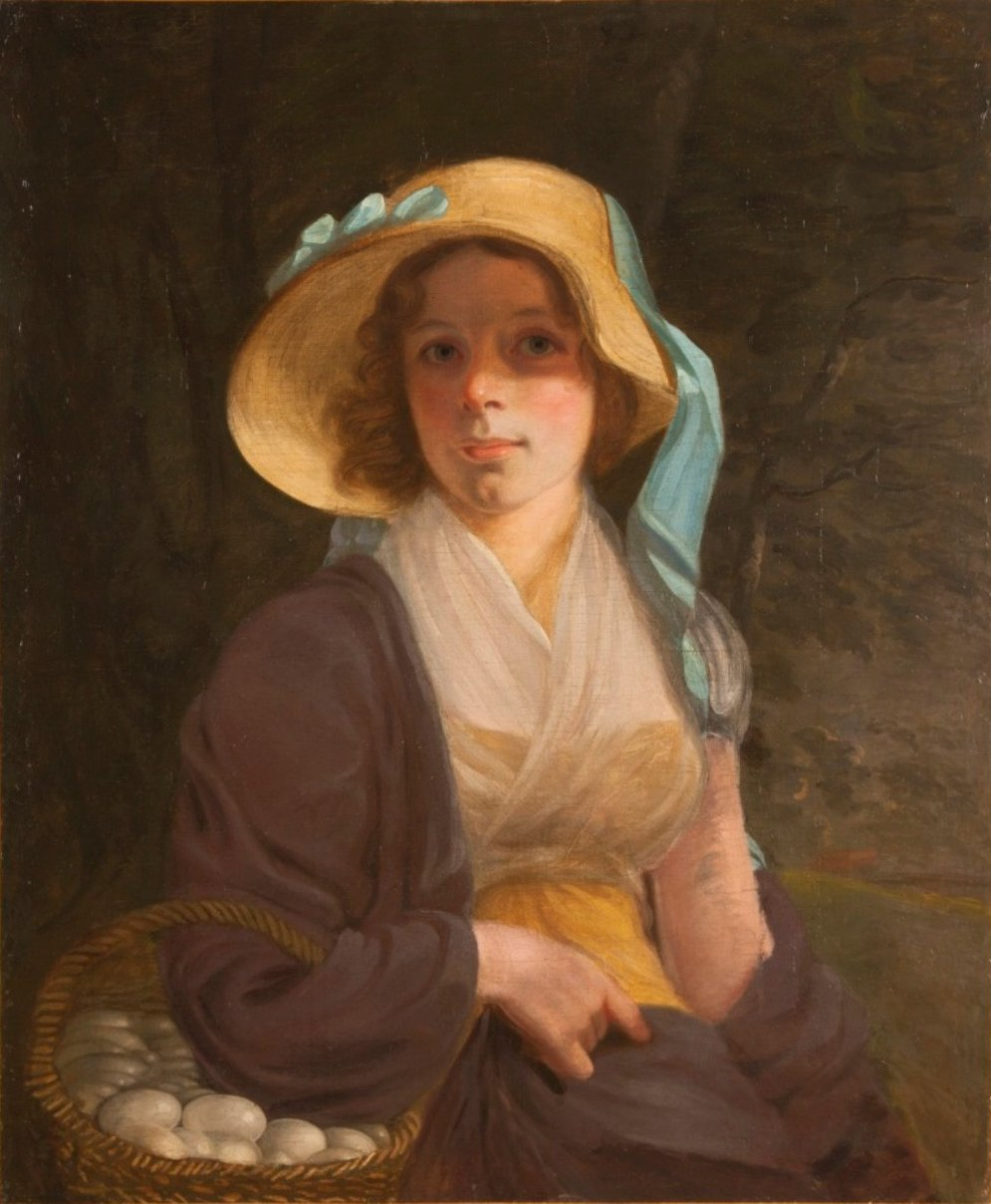 Betsy Burtis (the artist's first wife who died in 1813), by John Wesley Jarvis, oil on canvas, 30 by 25 in.